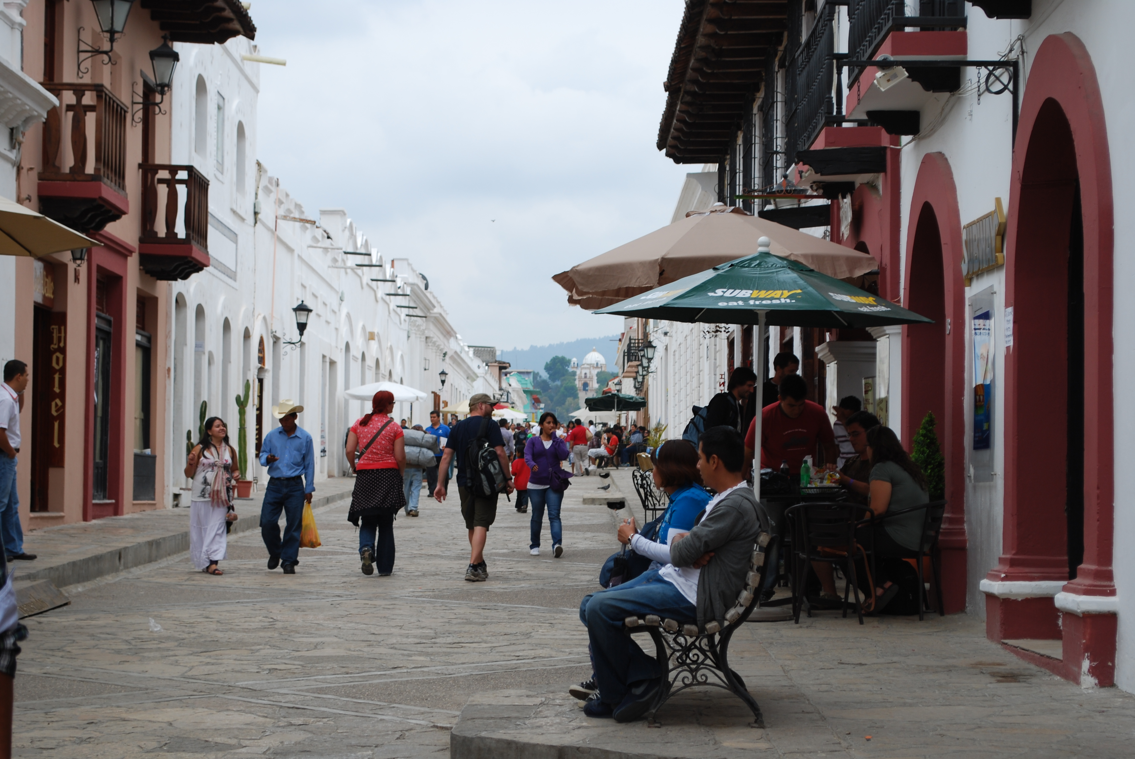 Real de Guadalupe Street looking east in San Cristobal de las Casas, Chiapas, Mexico